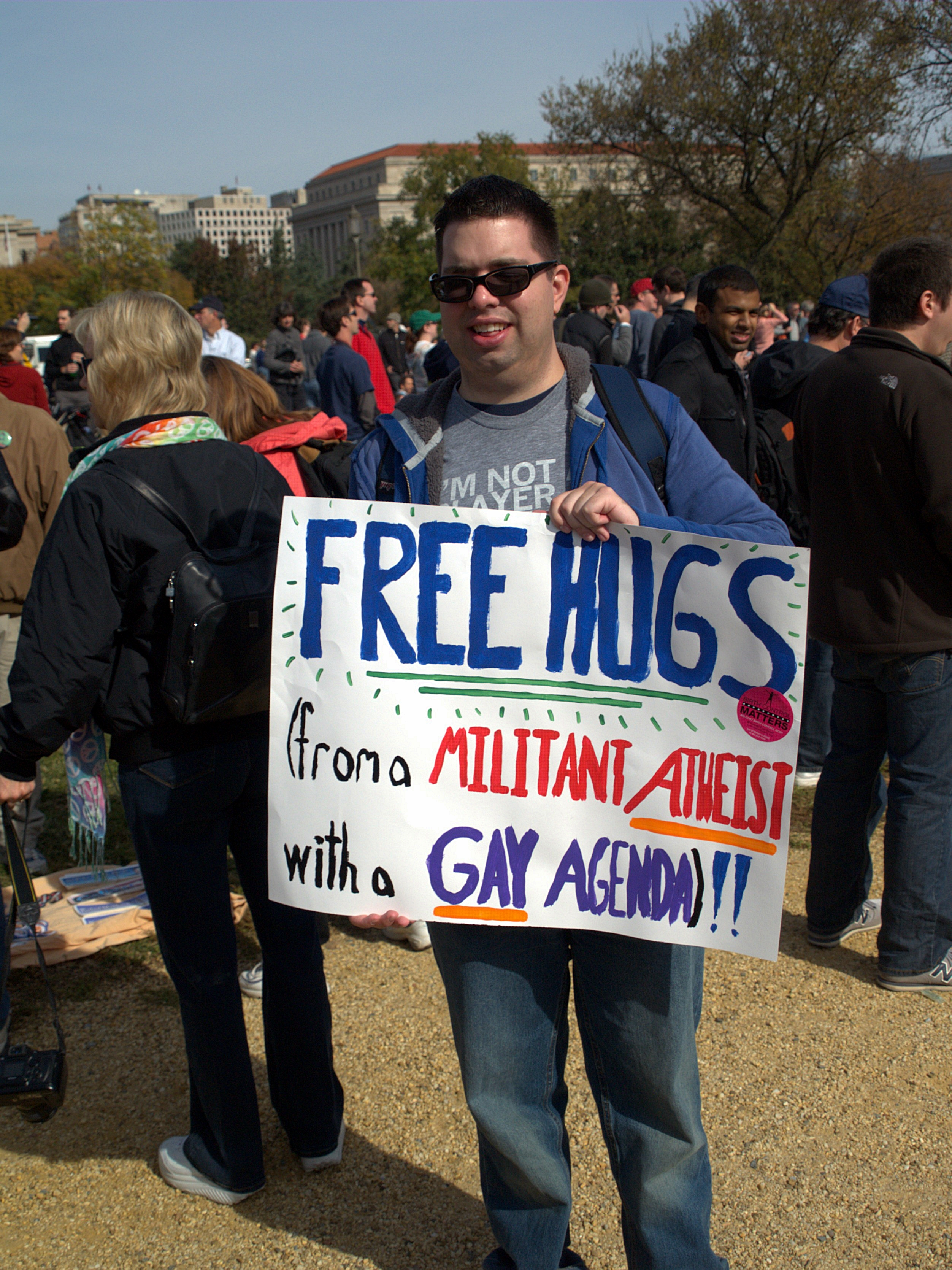 Photographs of the Rally to Restore Sanity and/or Fear.